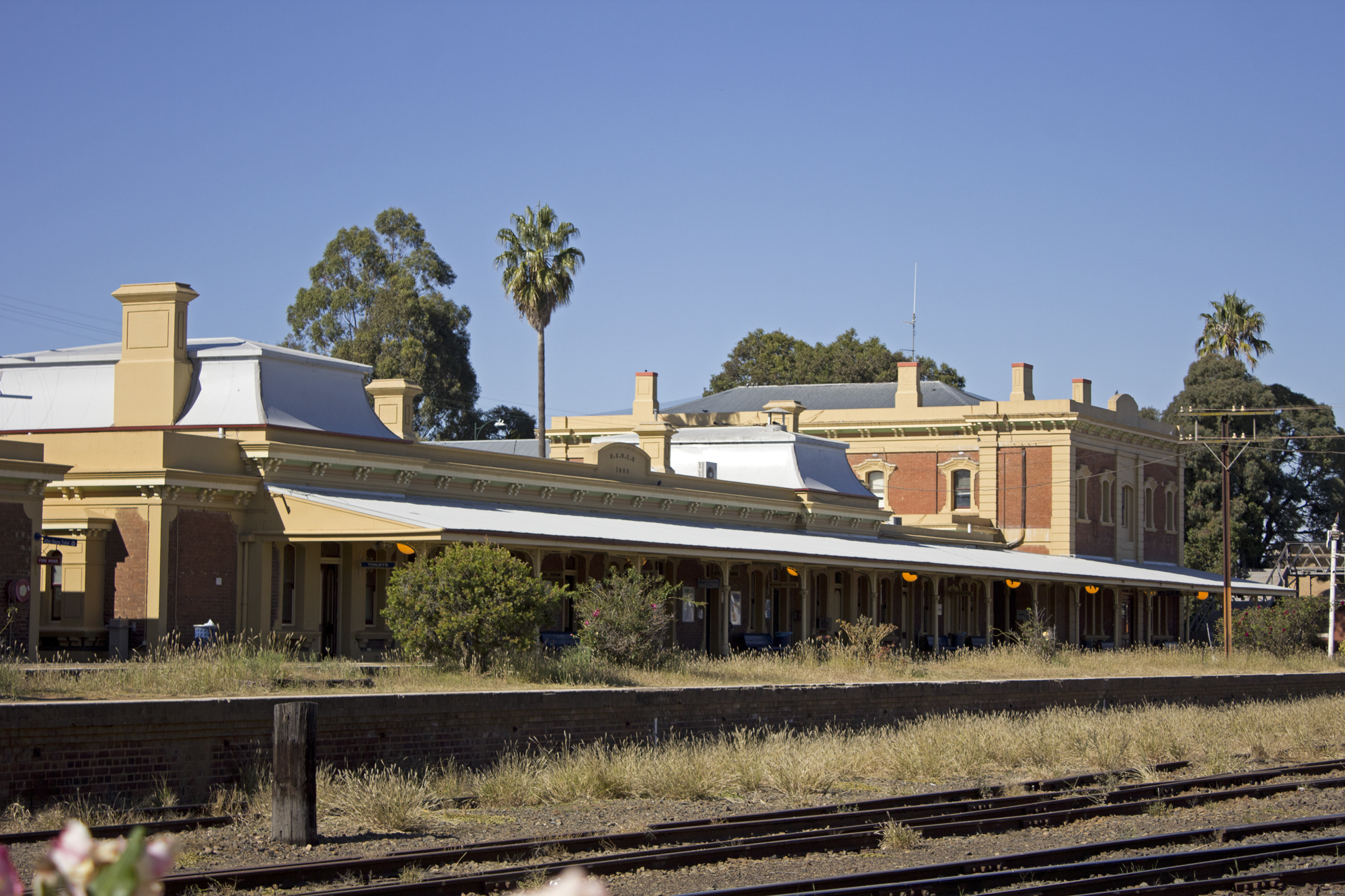 Junee Railway Station and Refreshment Rooms in Junee, New South Wales.